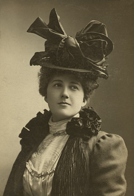 Portrait of Hilda Spong (1875-1955), English actress